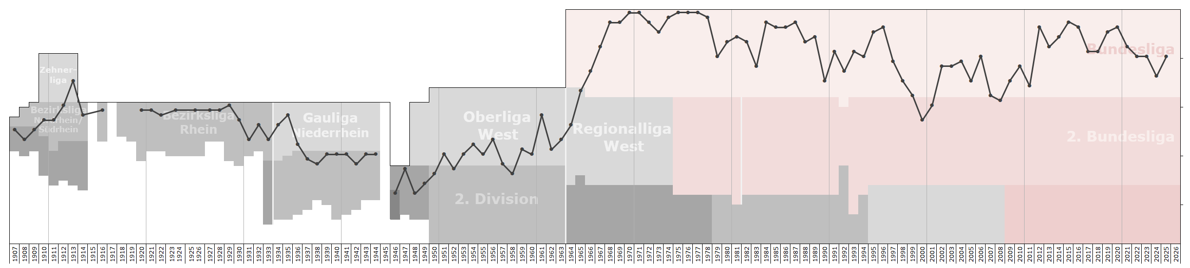 Chart of end-season table positions of Borussia Mönchengladbach in the football league system of Germany. Data source: RSSSF, wikipedia, f-archiv.de, fussball.de